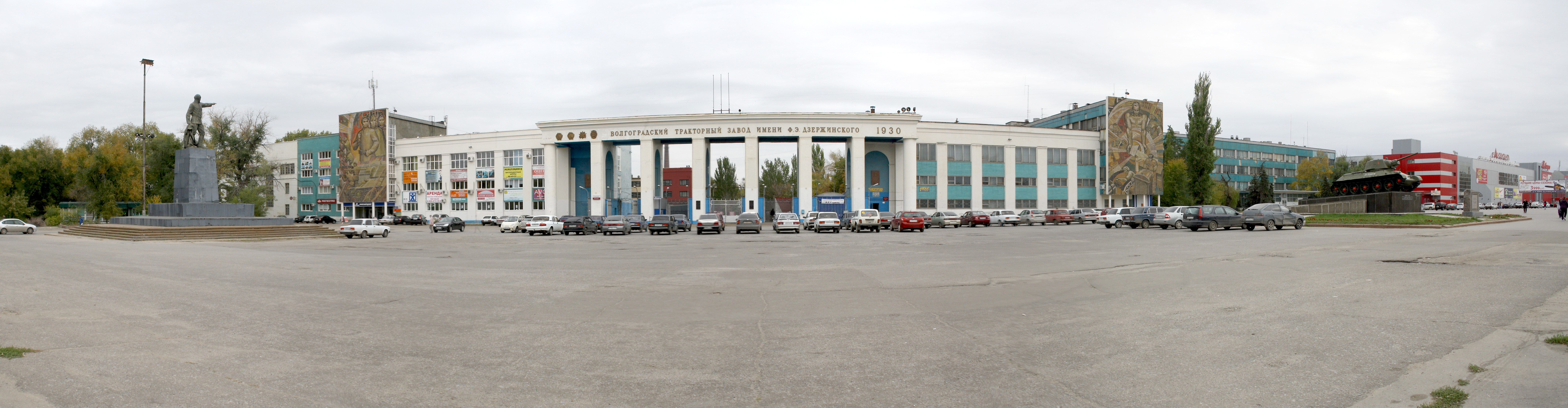 Dzerzhinsky Square (Lubyanka Square) — in Volgograd. Panoramic view with the Monument to Dzerzhinsky and the Volgograd Tractor Factory.